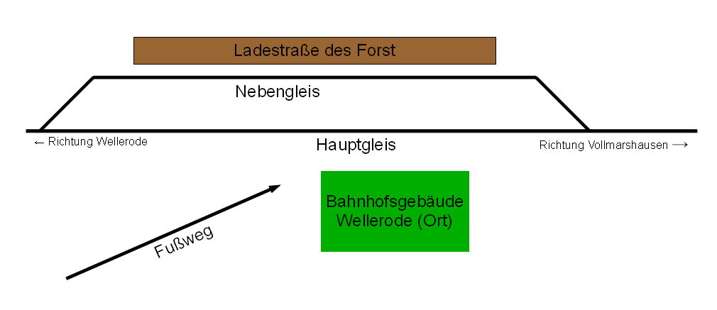 Map of Trainstation.